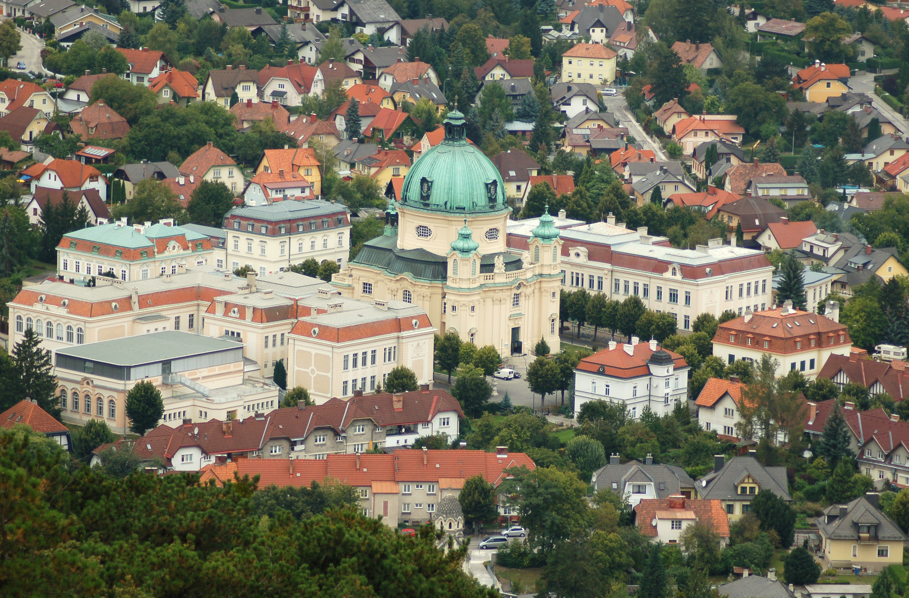 Ensemble Berndorf, Lower Austria, with St. Margarete parish church, famous school buildings with classrooms in different styles (left and right of the church), behind the church the parish priests house (left) and former Konsumanstalt (right side), in front the former Casino of Krupp, today a restaurant, and left the former residential house for the school directors. Mausoleum of the Krupp family at the bottom border. (whole scenery seen from Guglzipf, Jubiläumswarte)